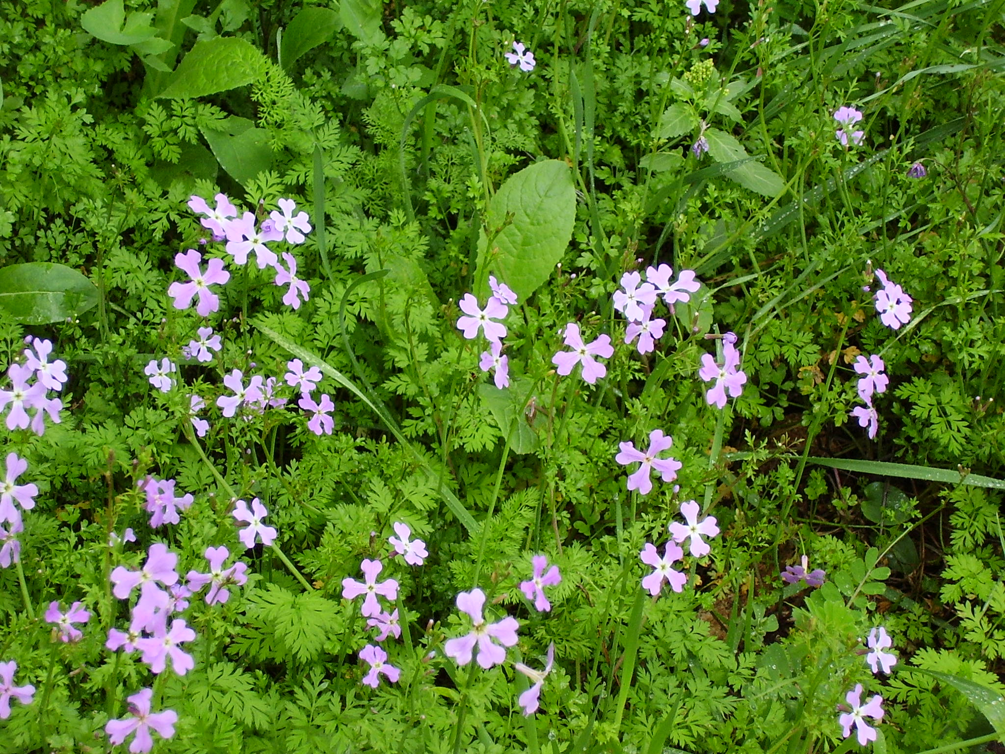 ricota lunaria in mount carmel